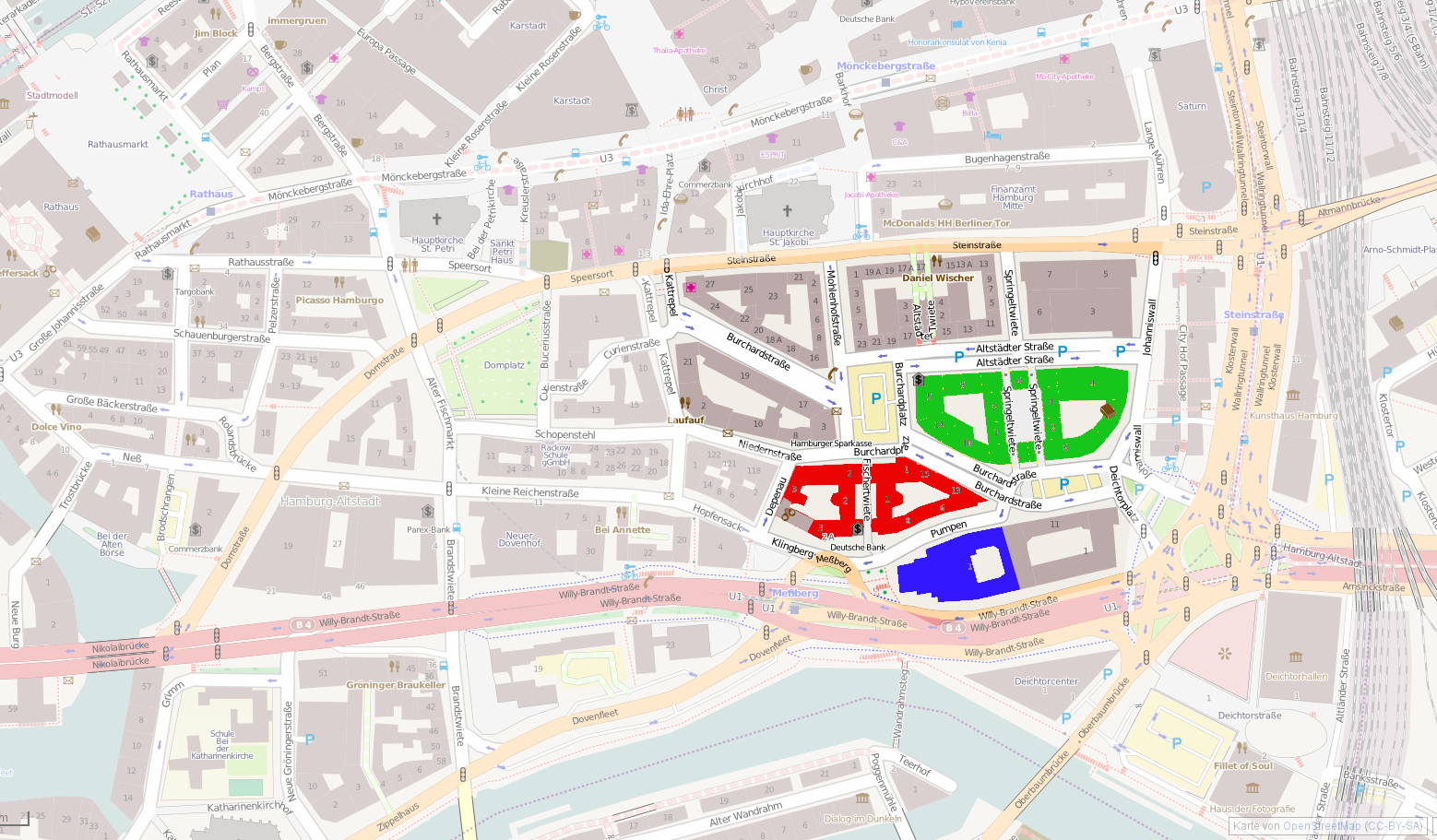 This map of Hamburg Kontorhausviertel - Chilehaus=rot - Sprinkenhof=grün; Meßberghof=blau was created from OpenStreetMap project data, collected by the community. This map may be incomplete, and may contain errors. Don't rely solely on it for navigation.